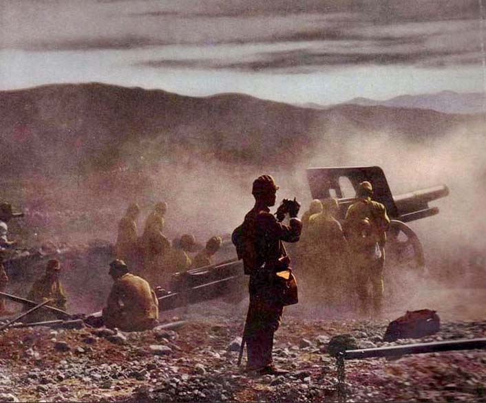 A Type 4 15-cm-howitzer of the Imperial Japanese Army, China 1937